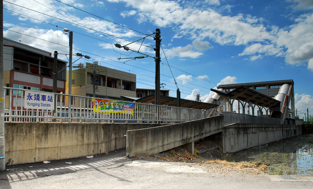 YongJing Station is a small local train station of Taiwan's Western main rail line. Although It's the only station of YuanJing Township, ChangHua County, it's located quite far away from the actual center of the township.